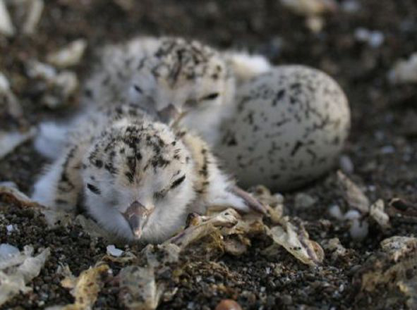 Photo by Ron LeValley/USFWS.